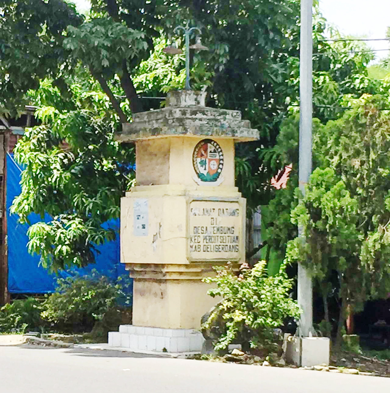 Welcome gate to Tembung, Percut Sei Tuan, Deli Serdang